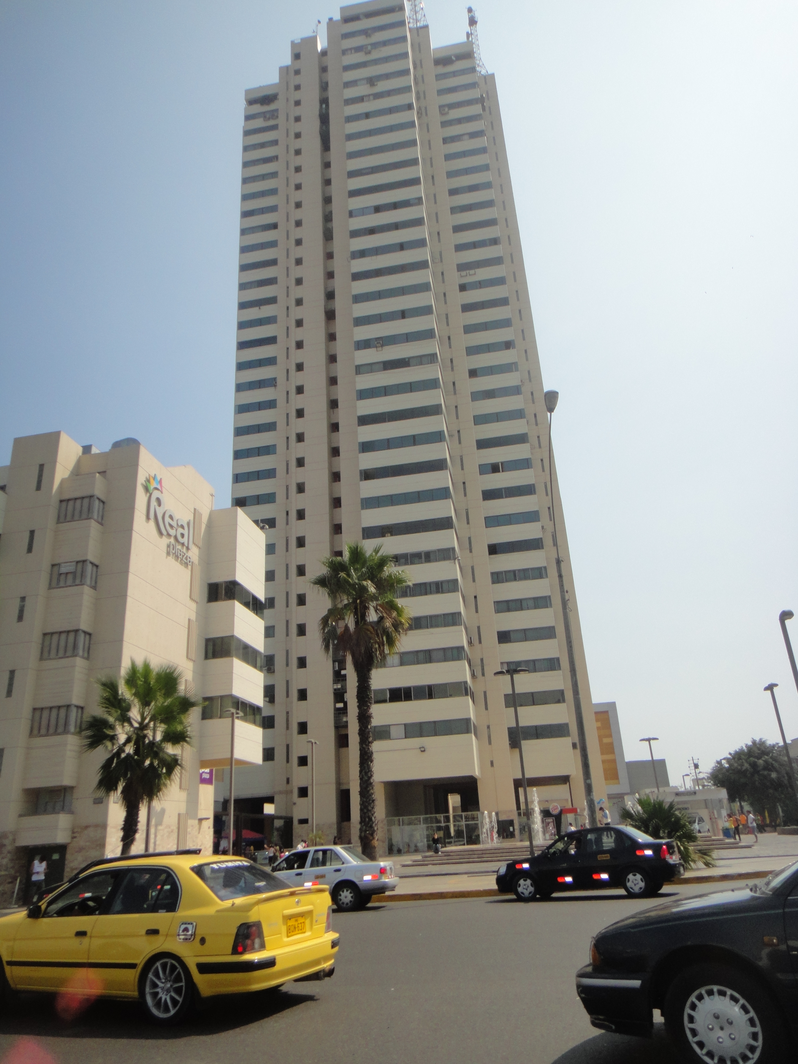 Tower highrise in Civic Center in Lima-Peru.